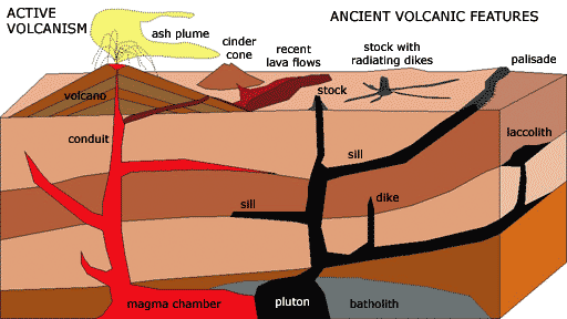 A schematic geological cross-section of a sequence of sedimentary rocks that are later intruded by igneous rocks accompanied by volcanic activity.